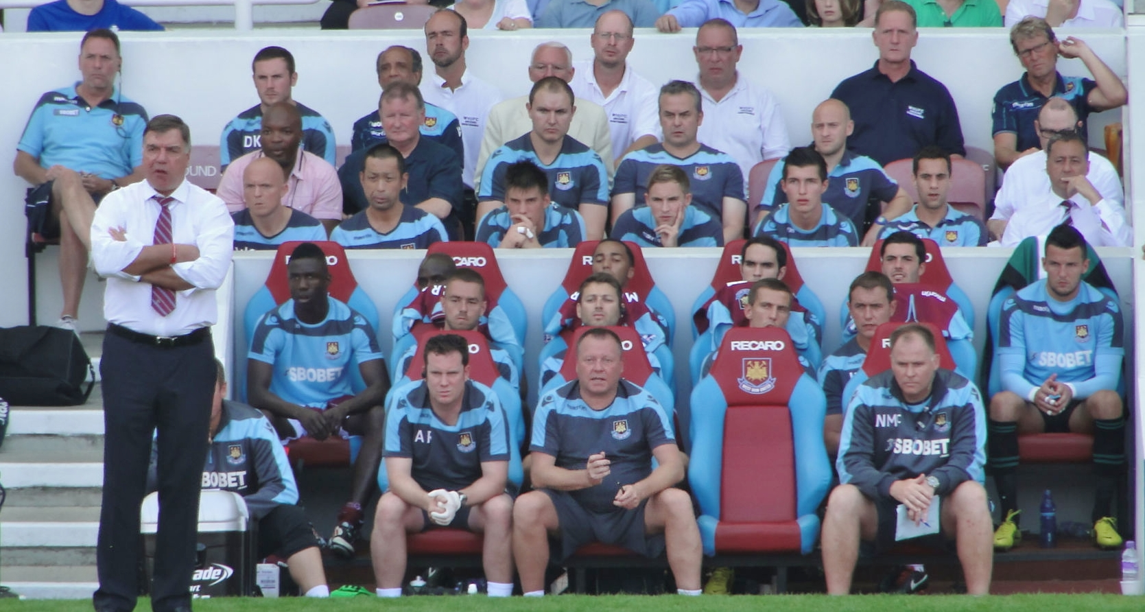 West Ham United manager (standing, white shirt), with the West Ham United bench at The Boleyn Ground.